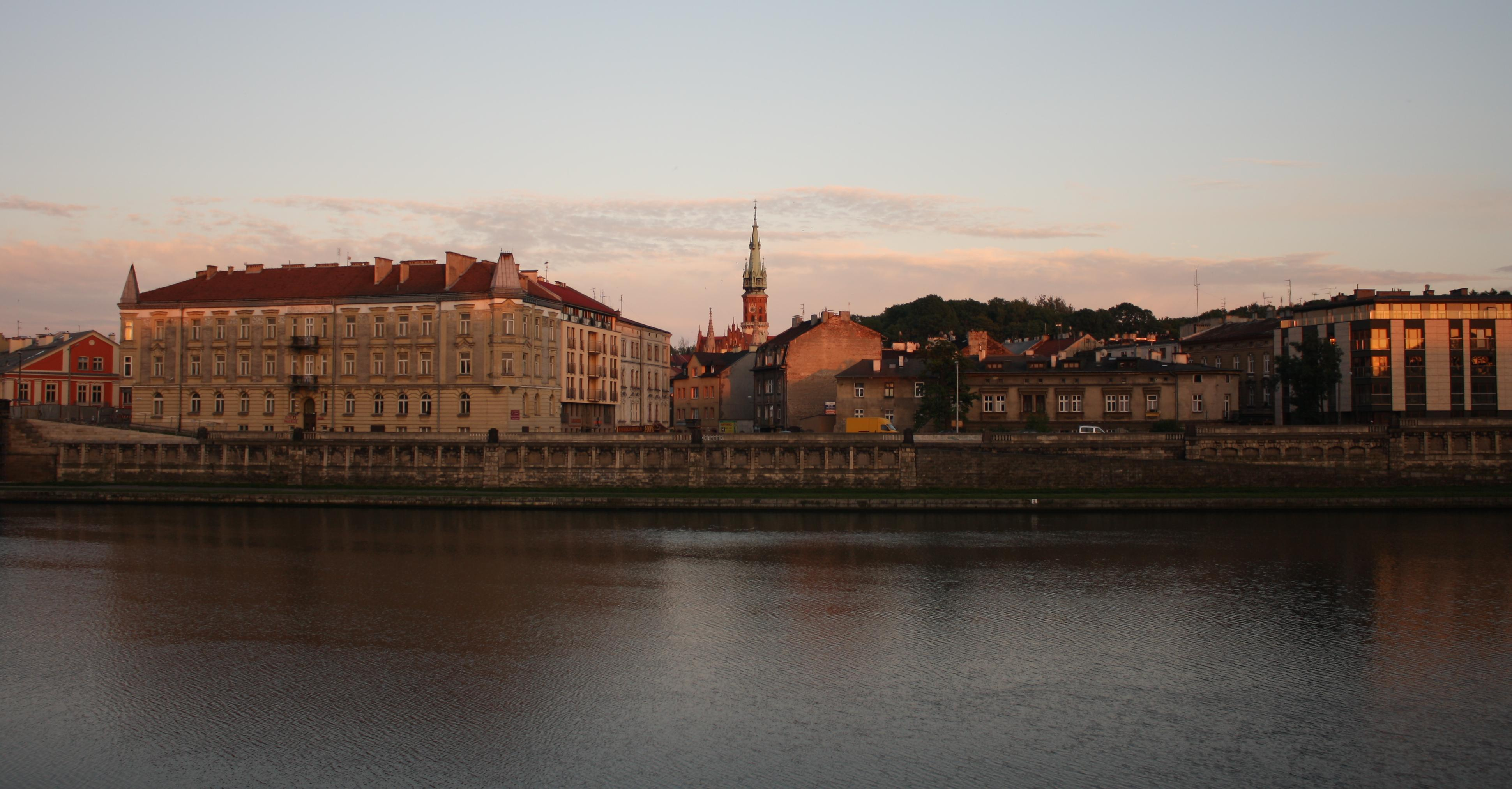 View of historical part of Podgórze)